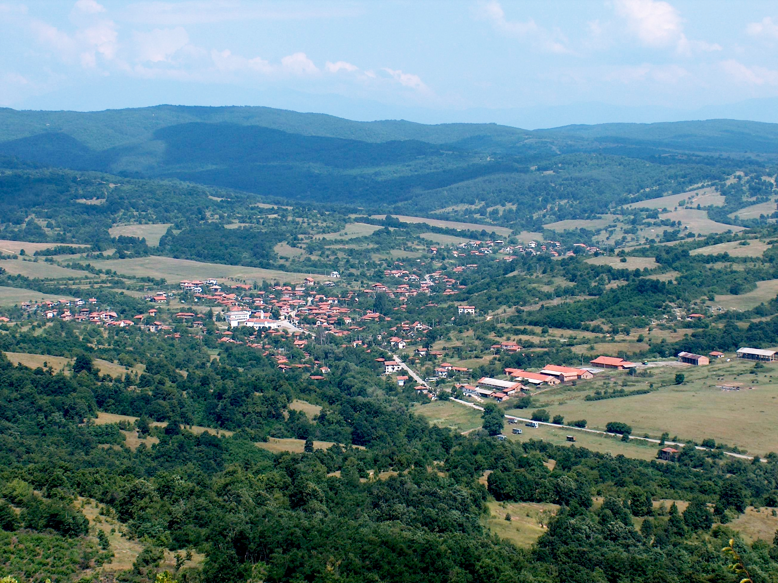 general view of village Kazanka, Bulgaria